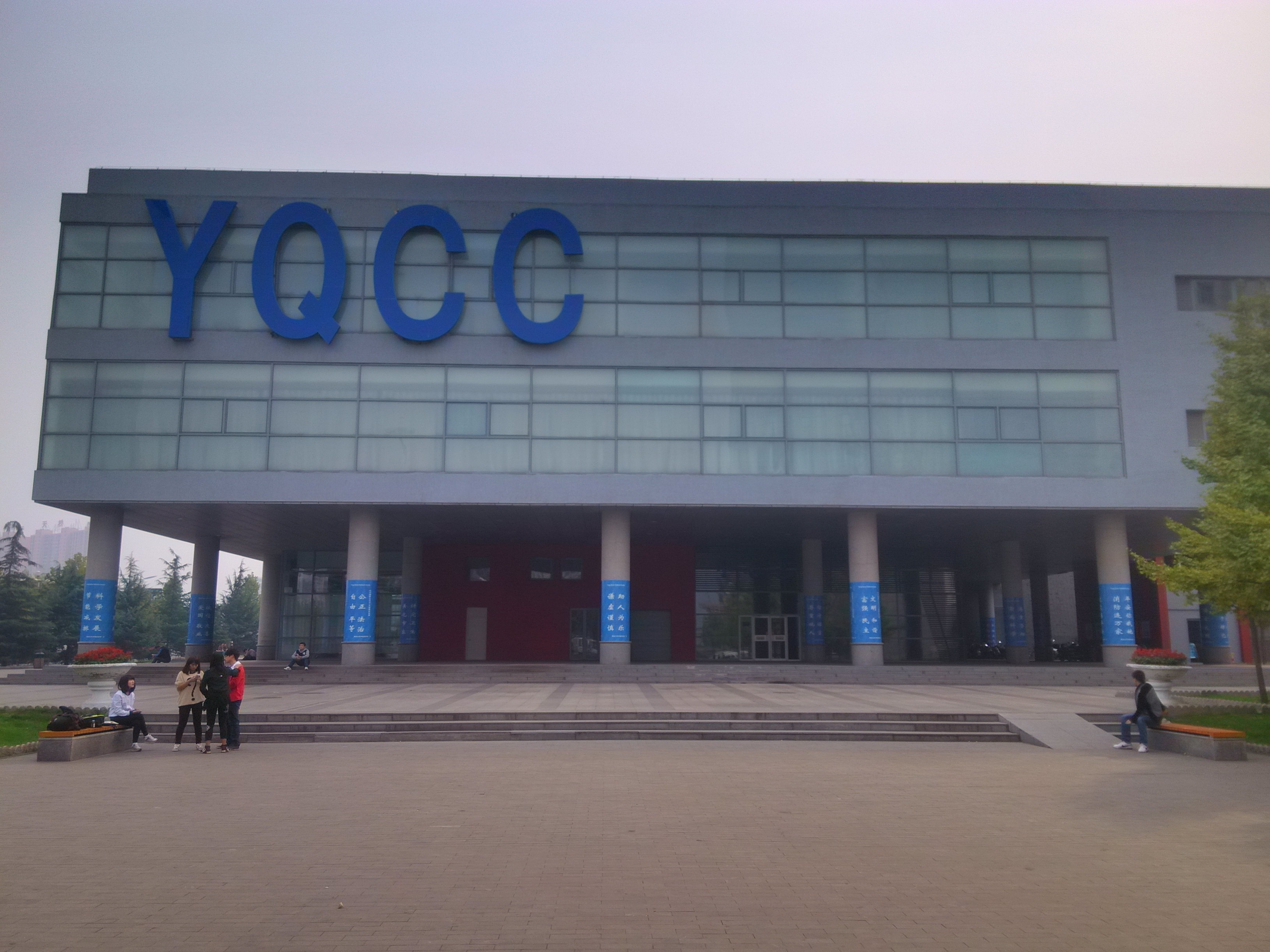 Yangquan Culture Center(abbr. YQCC)